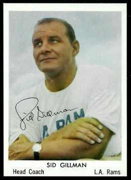 A 1959 promotional image of Los Angeles Rams head coach Sid Gillman.